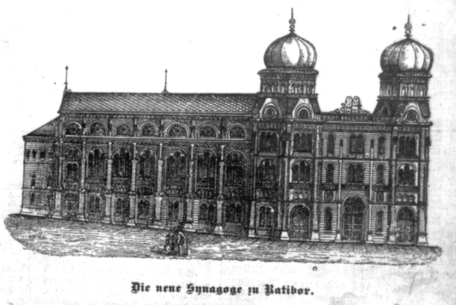 Synagogue of Ratibor (lithographie end of XIX th century.